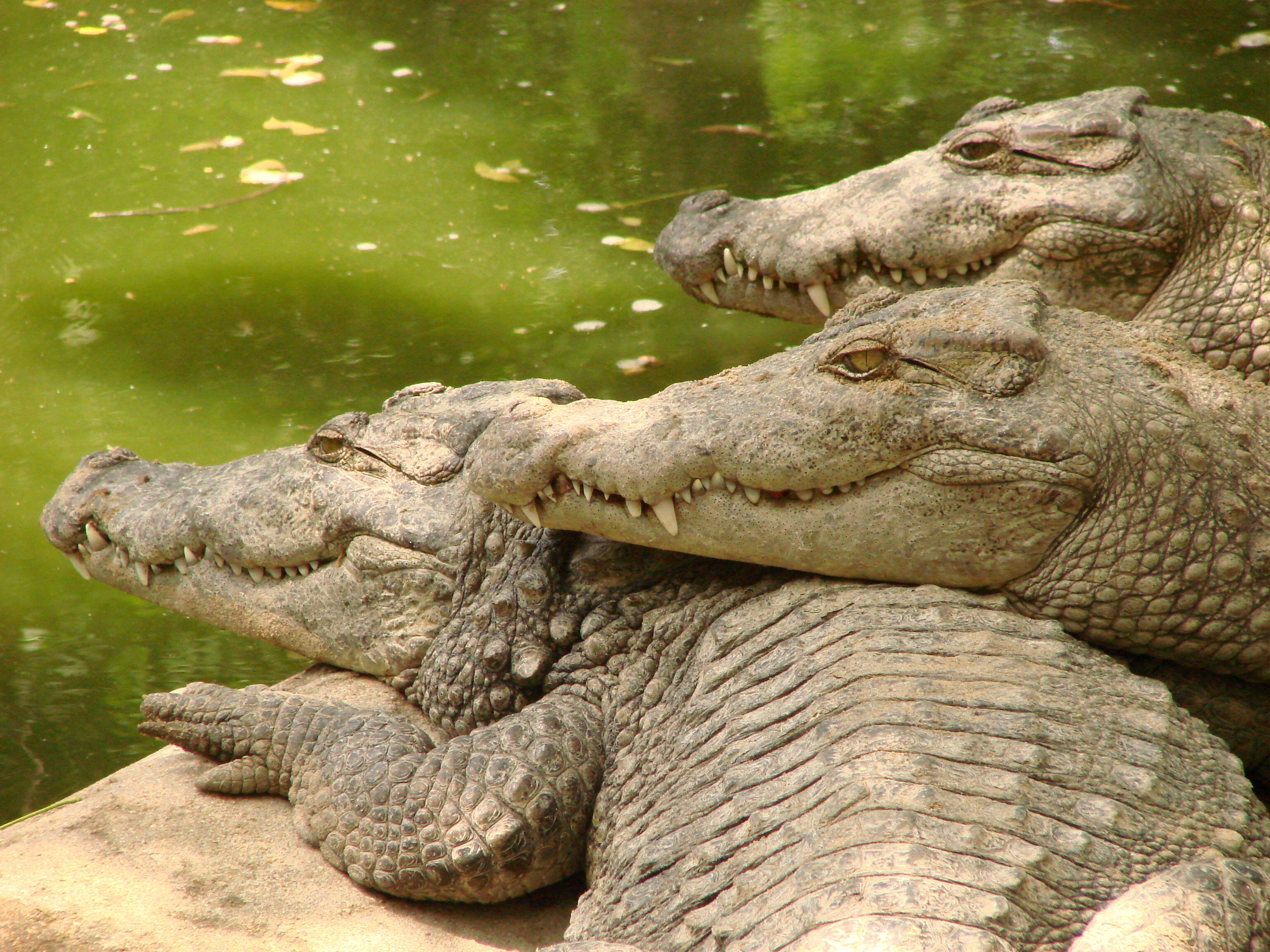 Crocodiles at Crocodile Bank, outside Mamallapuram, India. July 2008.